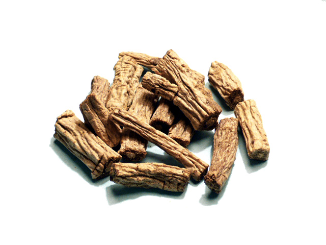 Organic dried Codonopsis pilosula root. Photo taken in Kent, Ohio with a Panasonic Lumix digital camera (model DMC-LS75). Organic Codonopsis pilosula root (produced in China) purchased from Mountain Rose Herbs of Eugene, Oregon, United States.